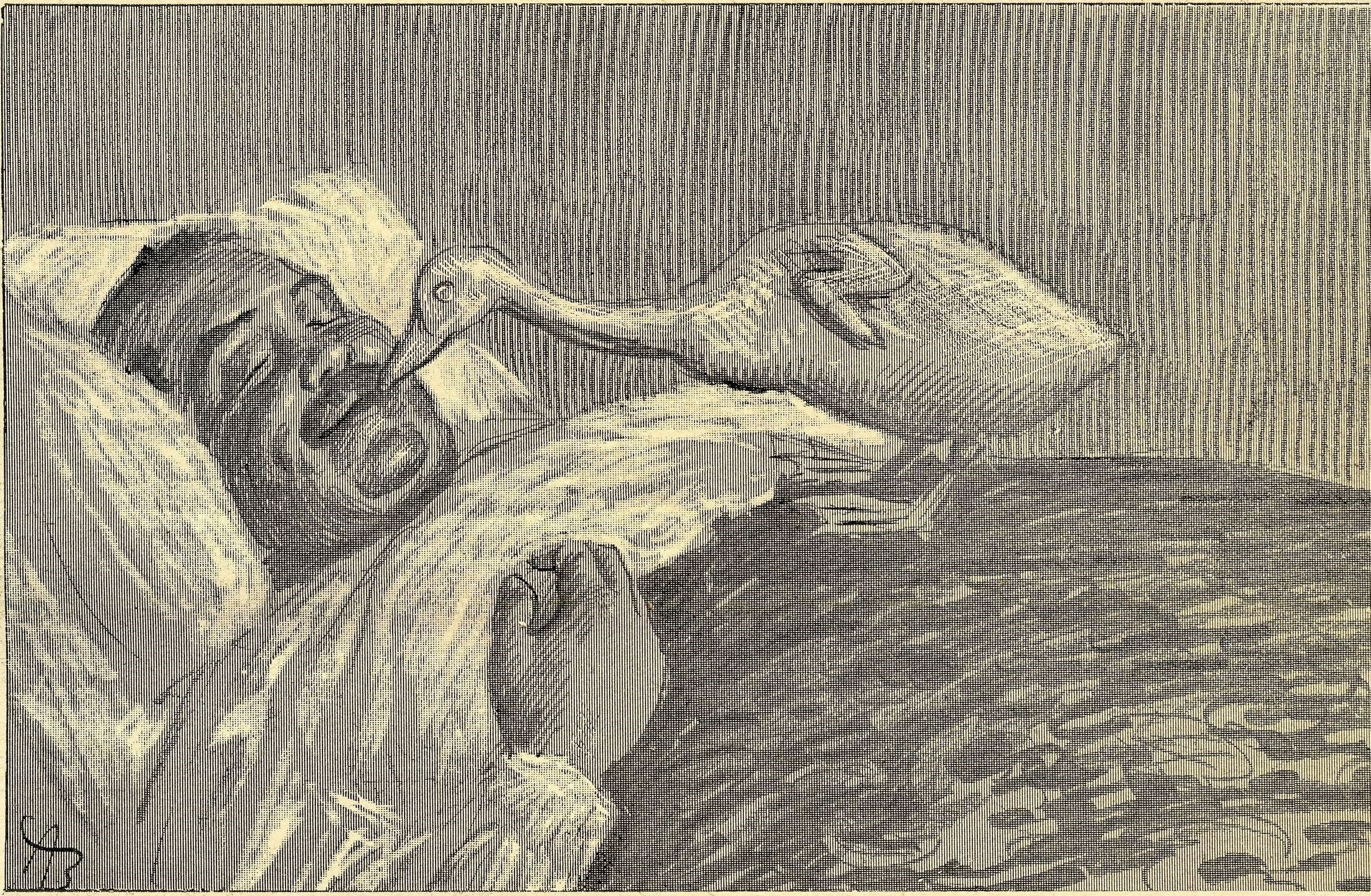 Feast of Saint Martin.